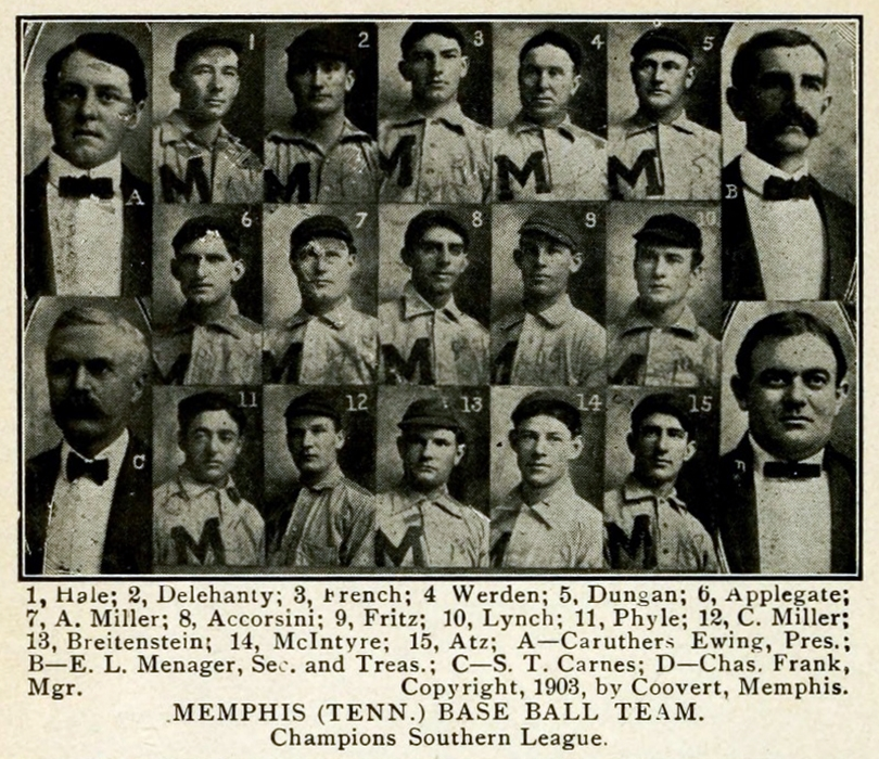 The 1903 Memphis Egyptians, a minor league baseball team from Memphis, Tennessee